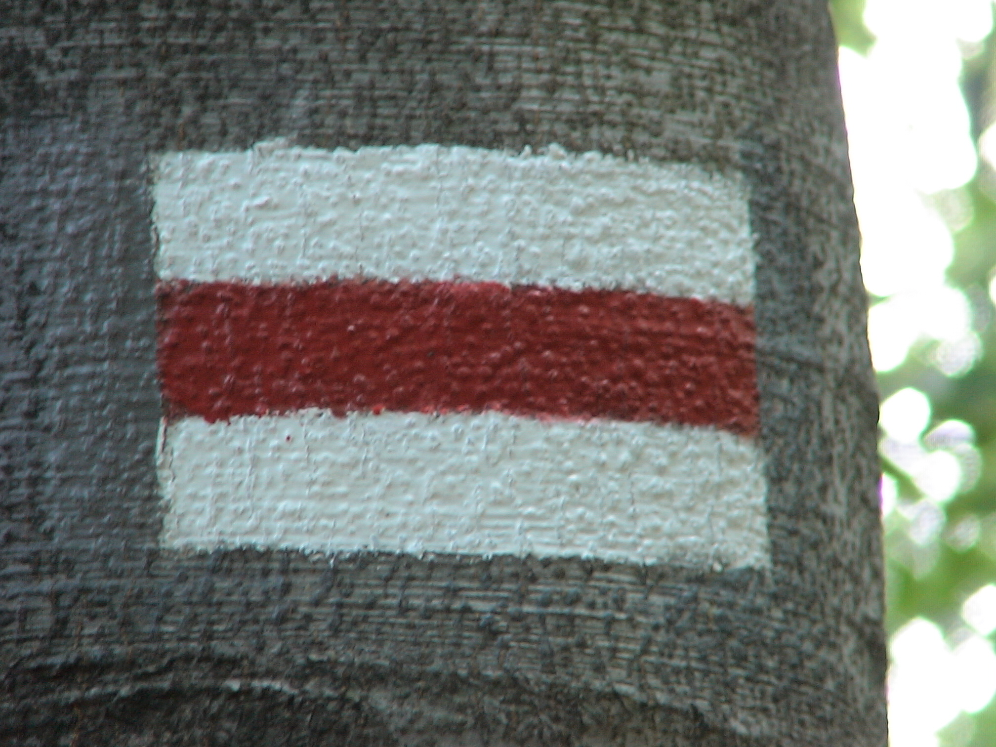 Red trail blaze in Poland.